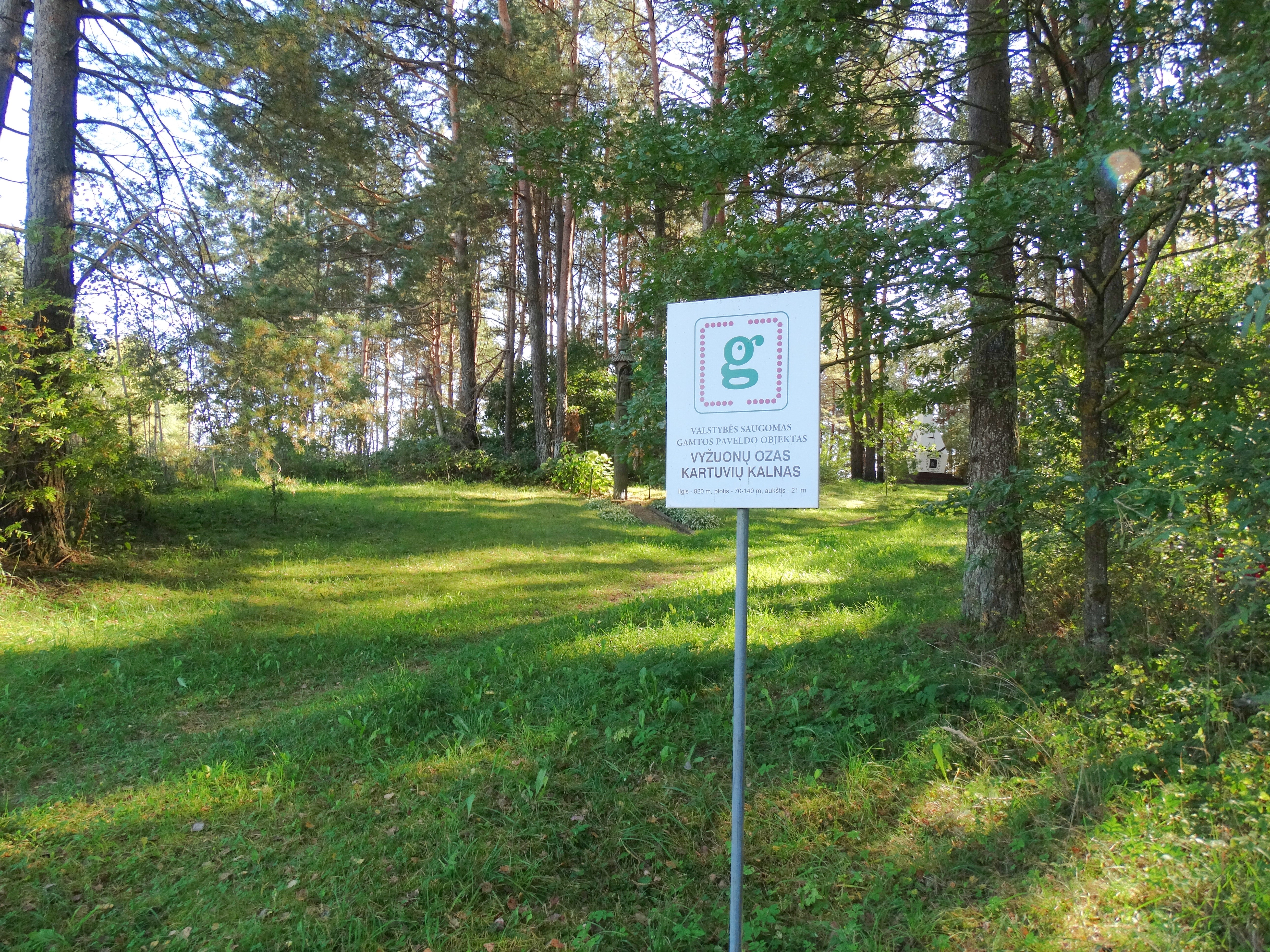 Esker by Vyžuonos, Utena District, Lithuania